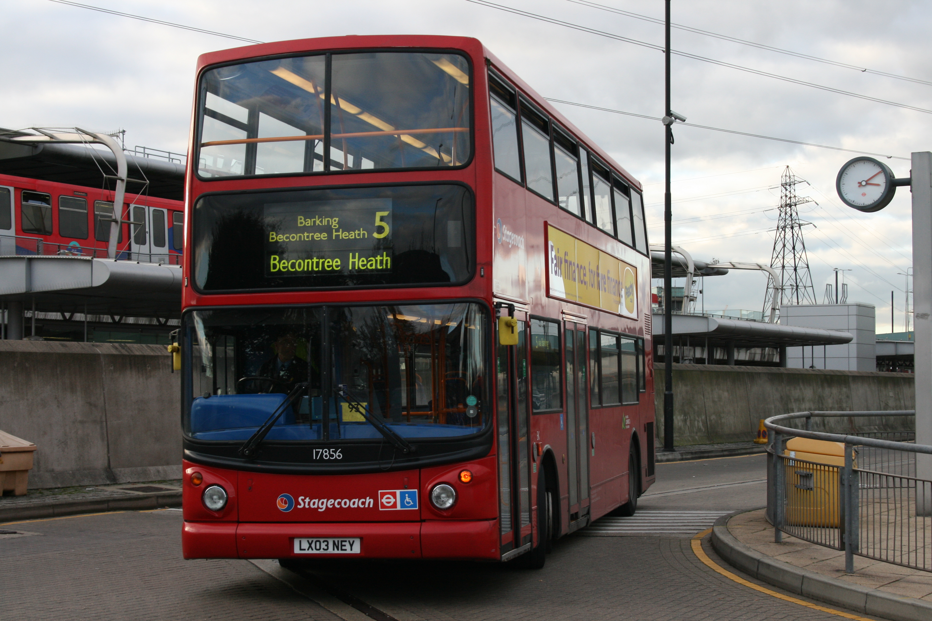 Stagecoach London 17856 (LX03 NEY) on Route 5, Canning Town Bus Station